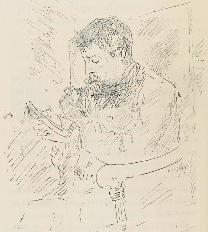 Selfportrait of Delpy, sketch.